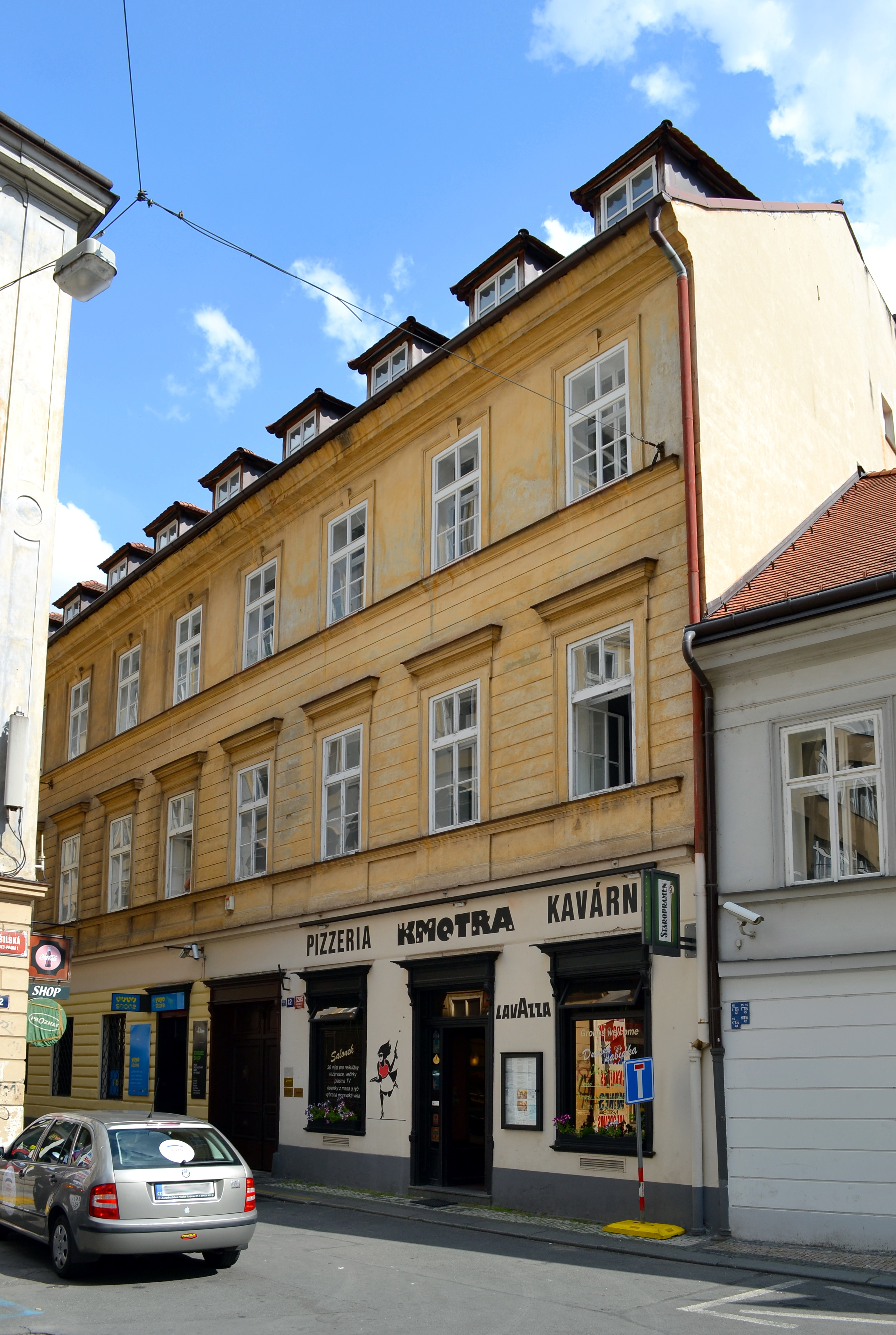 A cultural monument, V Jirchářích 1285/12, Nové Město, Prague 1, Czech Republic.